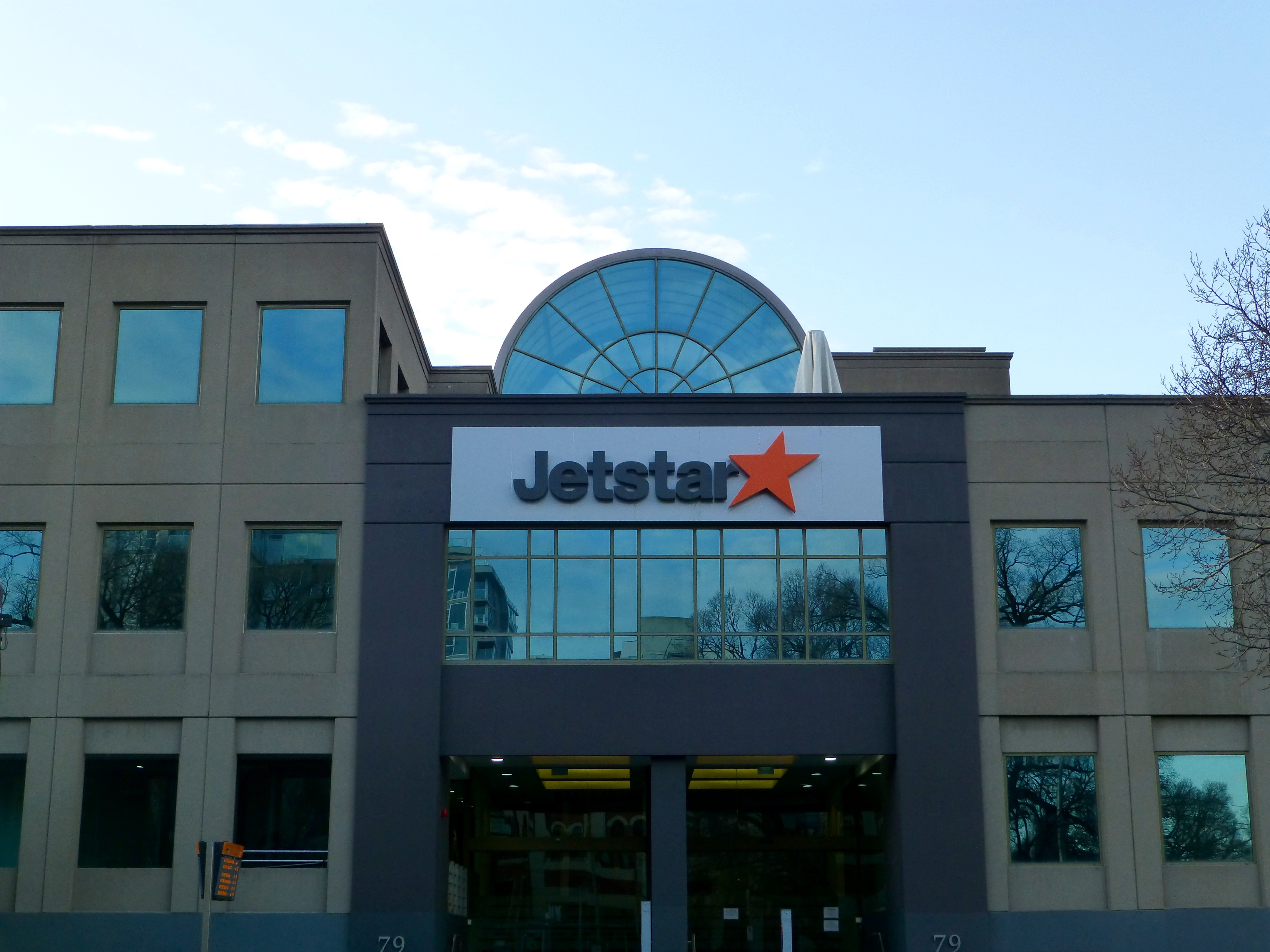 Australian headquarters of the budget airline and Qantas subsidiary Jetstar, located at 79 Victoria Parade in the Melbourne suburb of Collingwood.